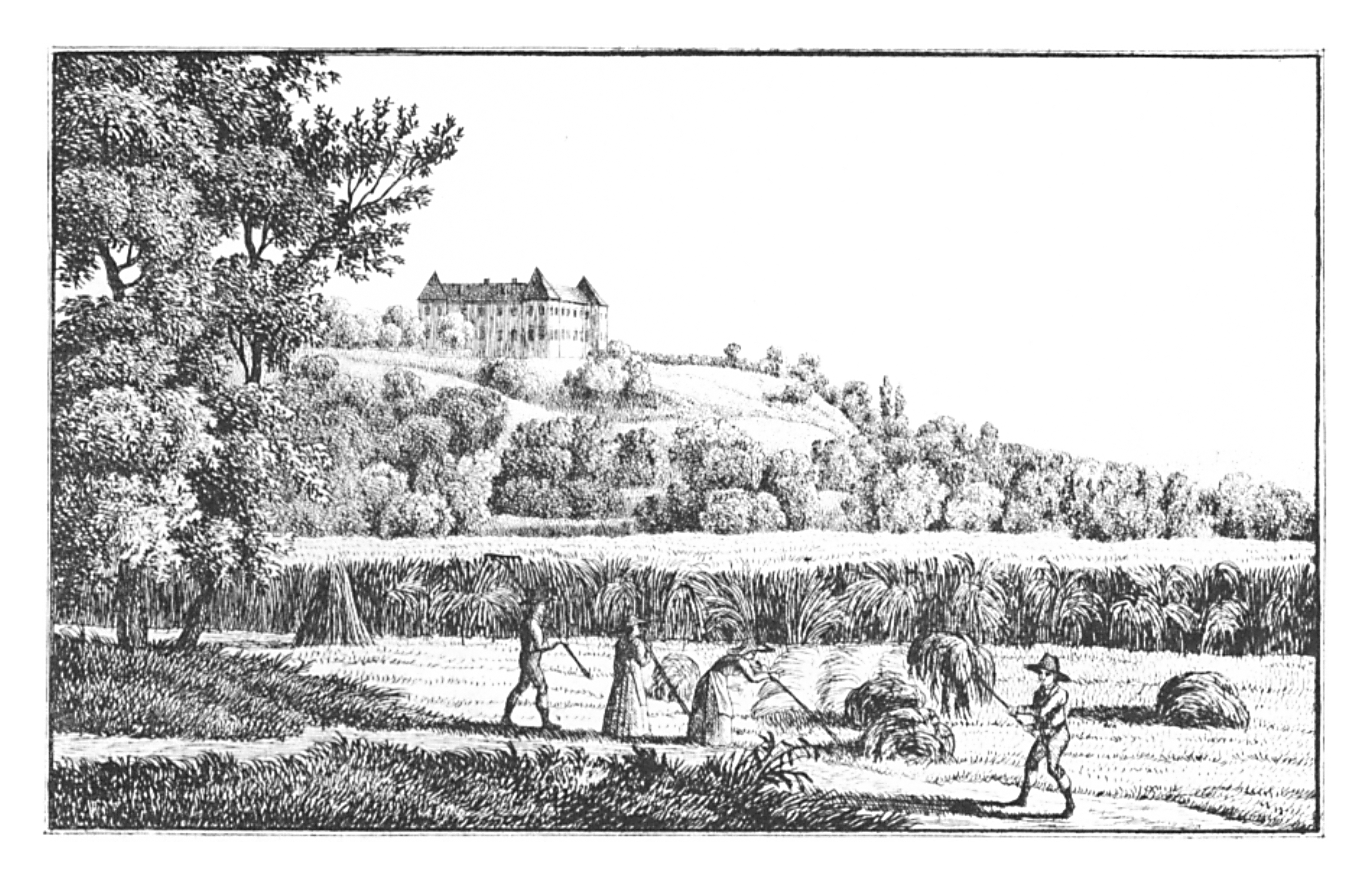 J. F. Kaiser - lithographirte Ansichten der Steyermärkischen Städte, Märkte und Schlösser, Graz 1824-1833 Joseph Franz Kaiser (1786–1859) Alternative names J. F. KaiserDescriptionAustrian printer and editorDate of birth/death 11 March 1786 19 September 1859Location of birth/death Graz (Styria) GrazAuthority control : Q1499963 VIAF: 30629353 ISNI: 0000 0000 3083 0153 LCCN: n87141671 GND: 129880159 NLP: A24960305 WorldCat creator QS:P170,Q1499963 . Scanprojekt Community Projektbudget 2012 This scan or this PDF-file was created within the GLAM-project Bookscanning, supported by Wikimedia Germany and Wikimedia Austria as a part of the community-project to capture books, documents and pictures which are not eligible to copyright or for which the copyright has expired. This document describes or depicts an object which is located in Austria today. Send requests for uncompressed scans to Hubertl. This work is in the public domain in its country of origin and other countries and areas where the copyright term is the author's life plus 100 years or less. You must also include a United States public domain tag to indicate why this work is in the public domain in the United States. This file has been identified as being free of known restrictions under copyright law, including all related and neighboring rights.